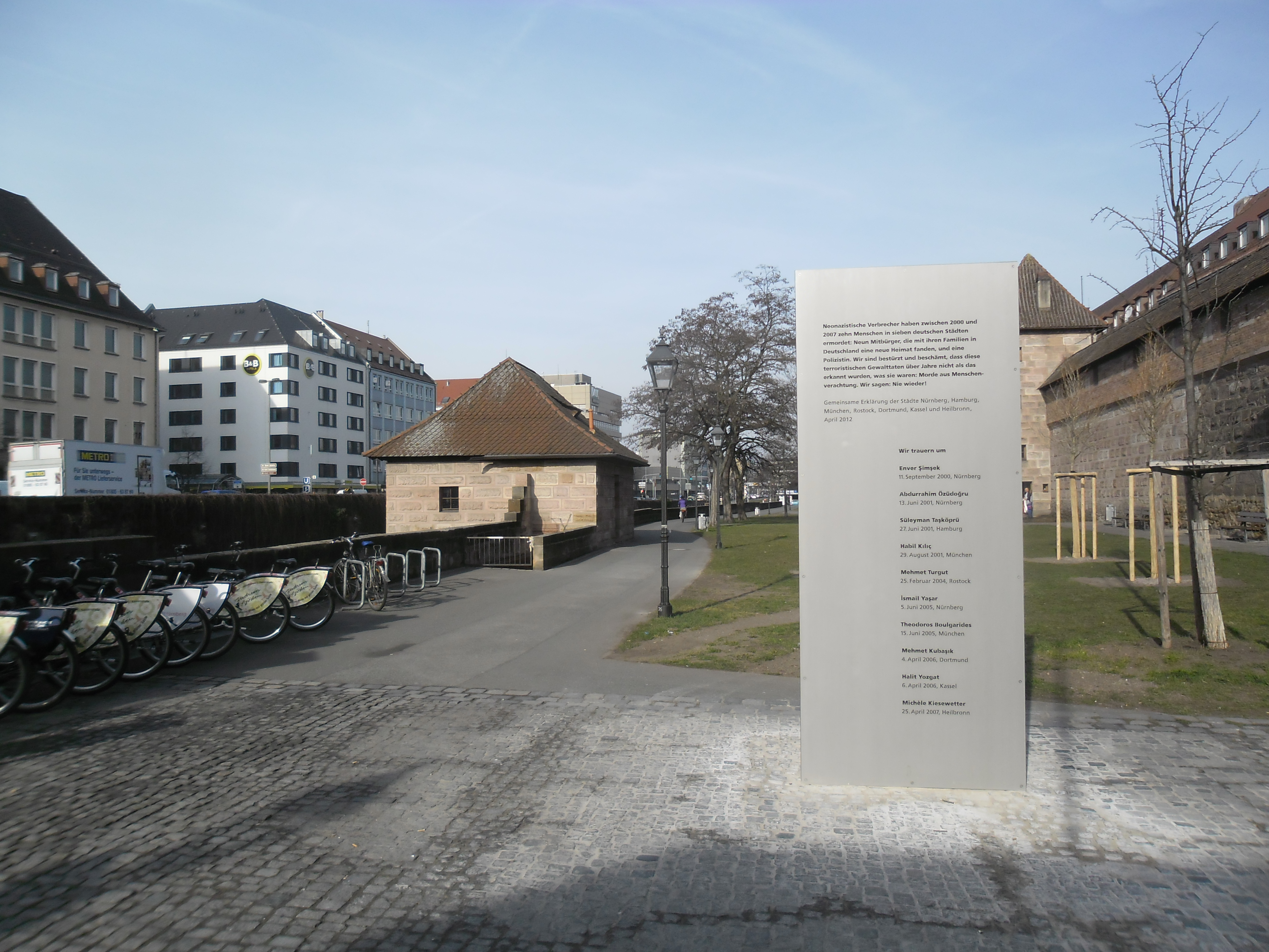 Memorial plaque to the victims of neo-fascist violence from 2000 to 2007 at the Kartäusertor in Nuremberg